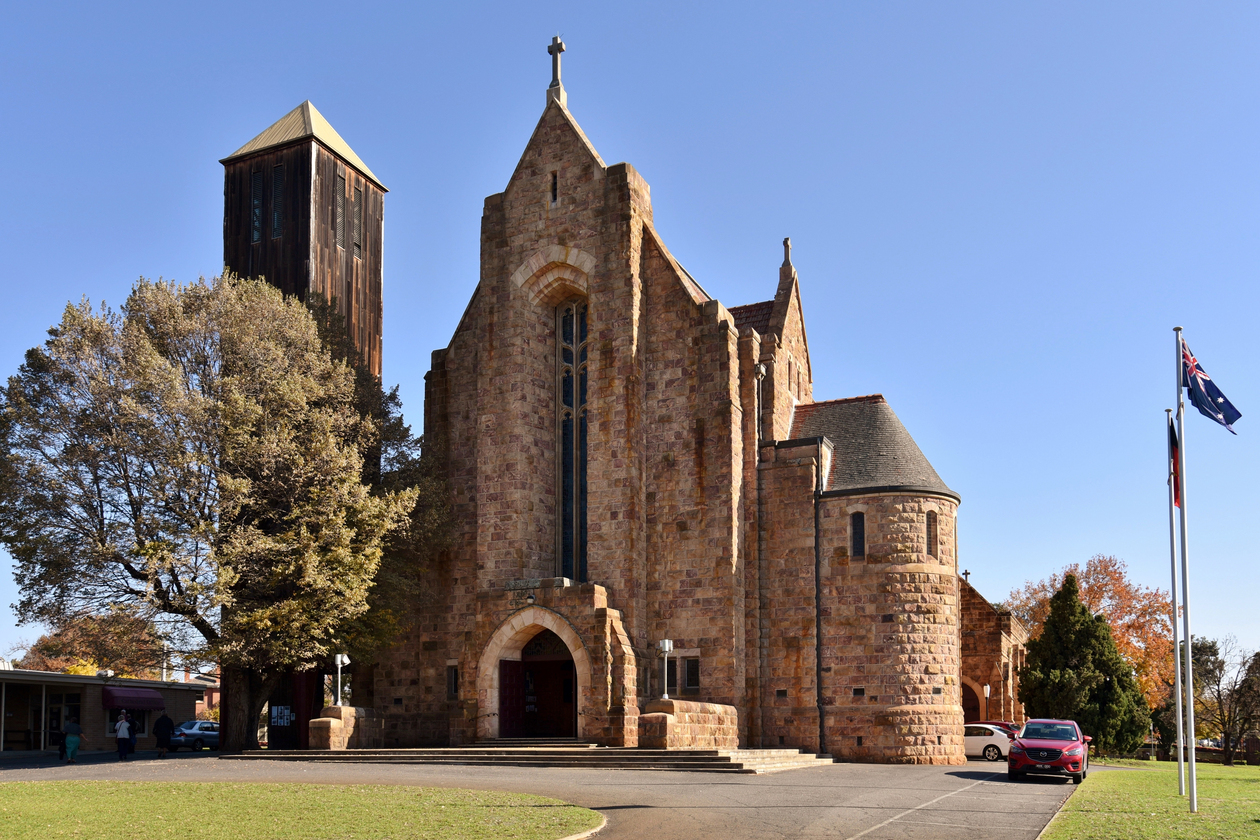 View of the Holy Trinity Cathedral, Wangaratta